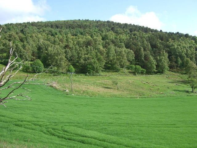 View towards Craiglich From Queen's View.